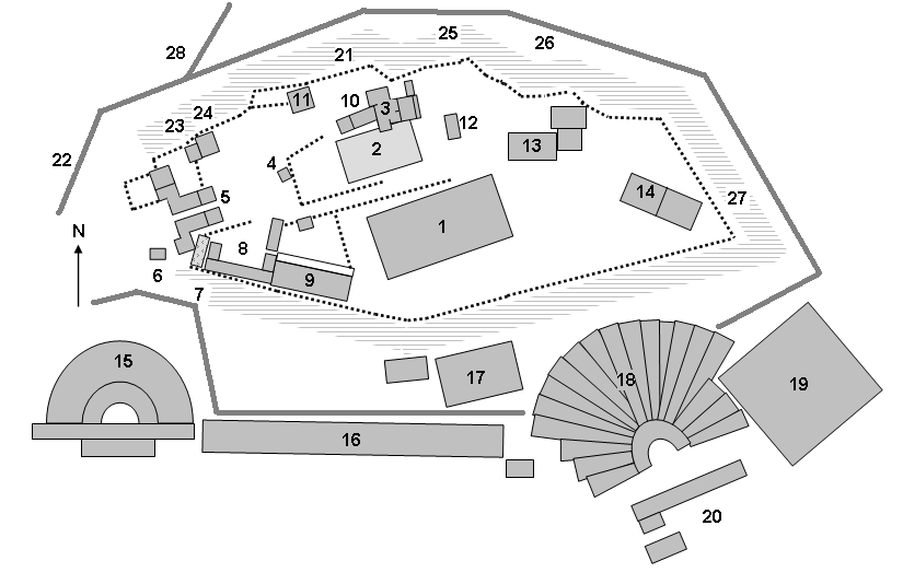 Site plan of the Acropolis, Athens showing major archaeological remains and the surrounding way Peripatos